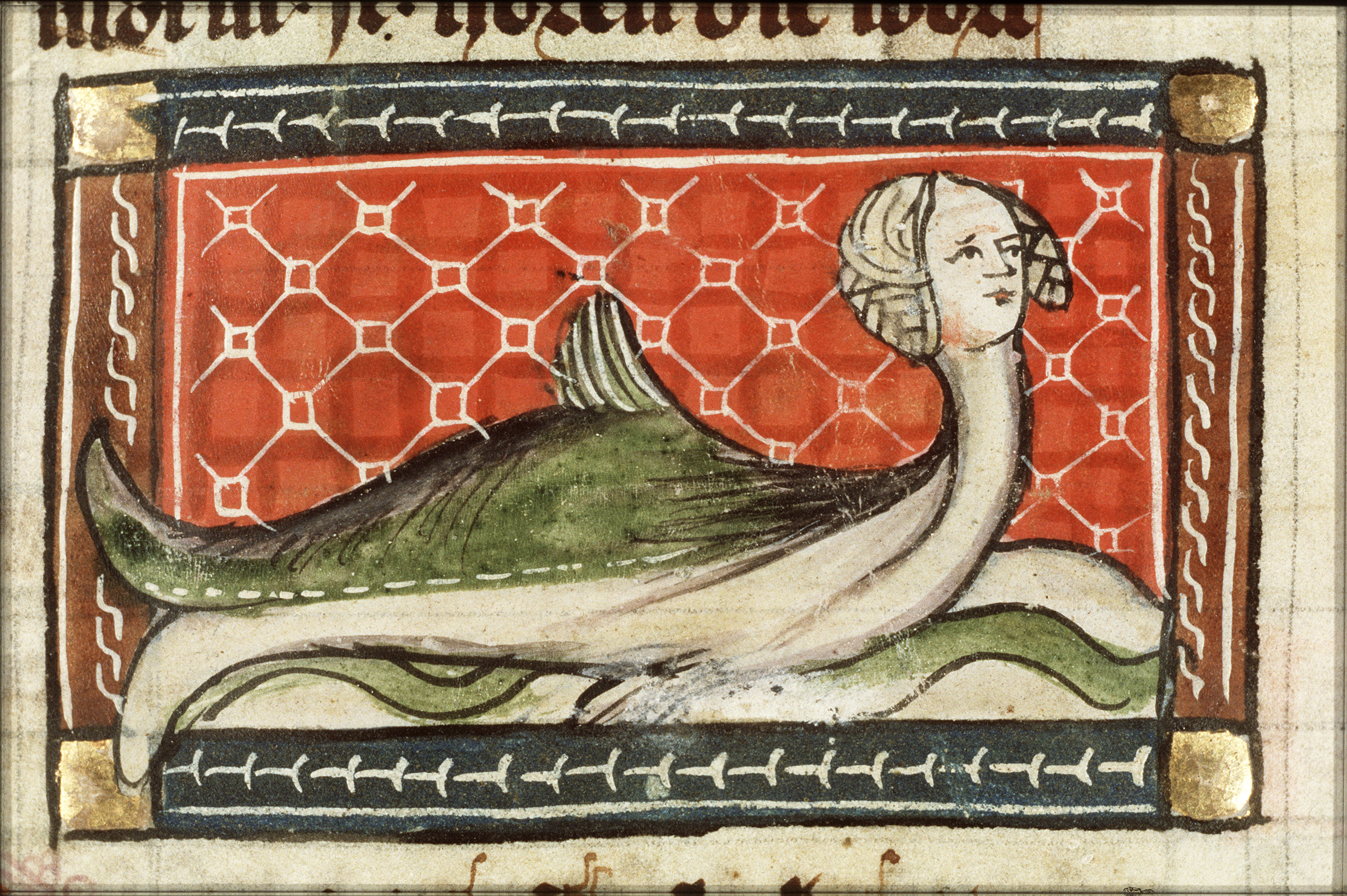 Nereide (sea-nymph) - miniature from folio 108r from Der naturen bloeme (KB KA 16) by Jacob van Maerlant Topics depicted in this miniature Other nereids (or sea-nymphs) (92I23) This miniature is part of the righthand side folio 108r